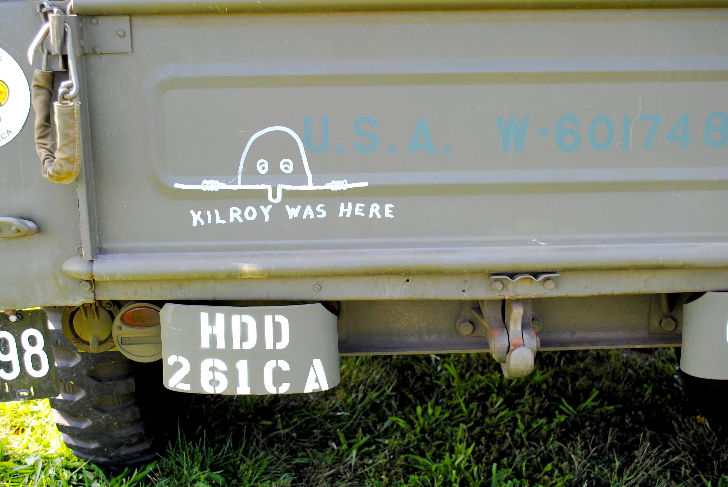 Kilroy was here sign on the back of the Dodge Truck.